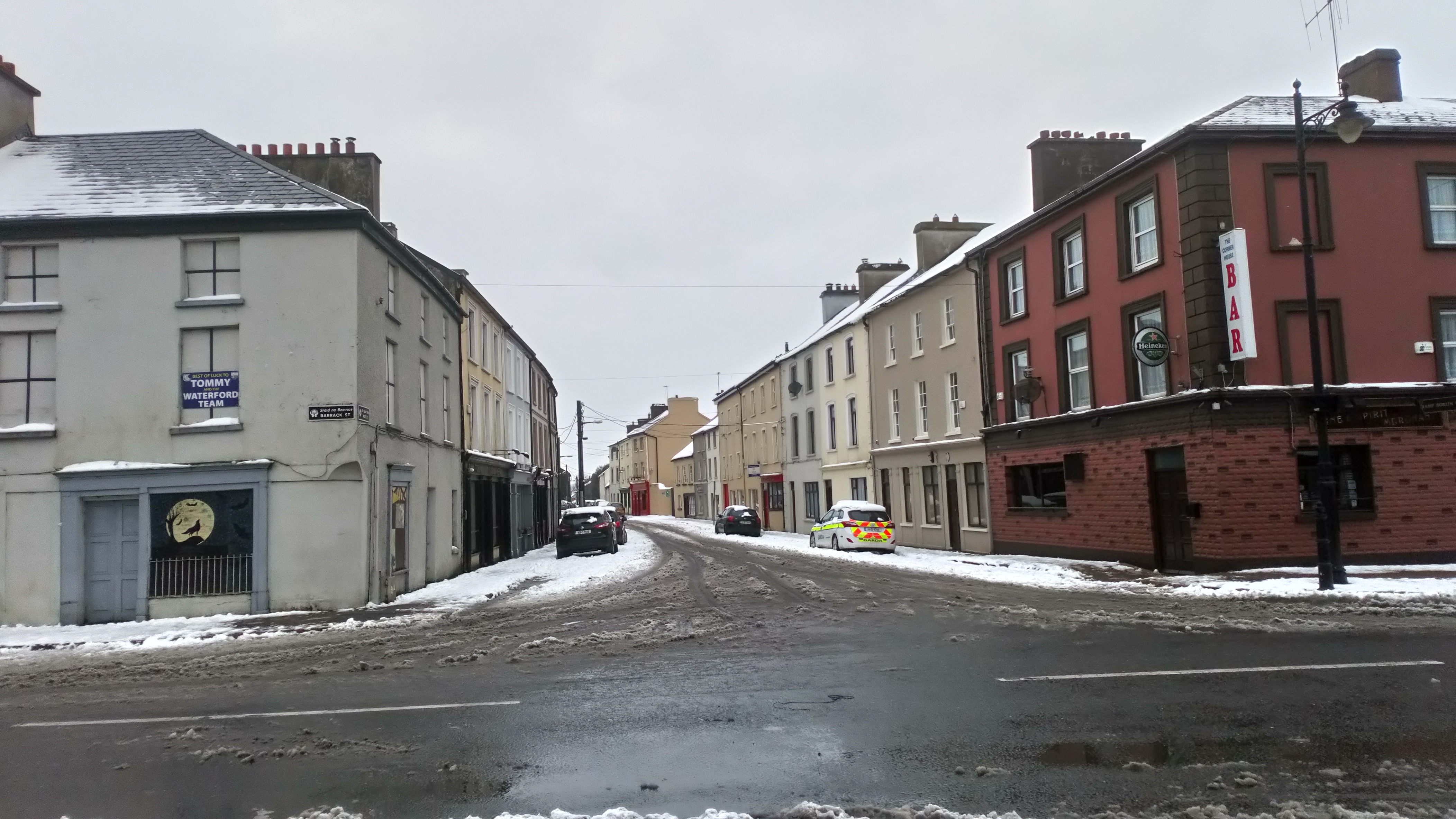 Tallow, County Waterford following the Beast from the East and Storm Emma. 2 March 2018